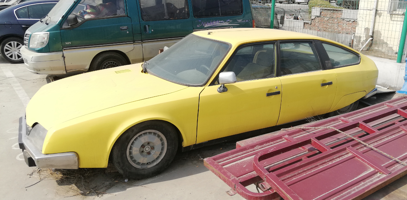 Citroën CX photographed in Beijing, China.